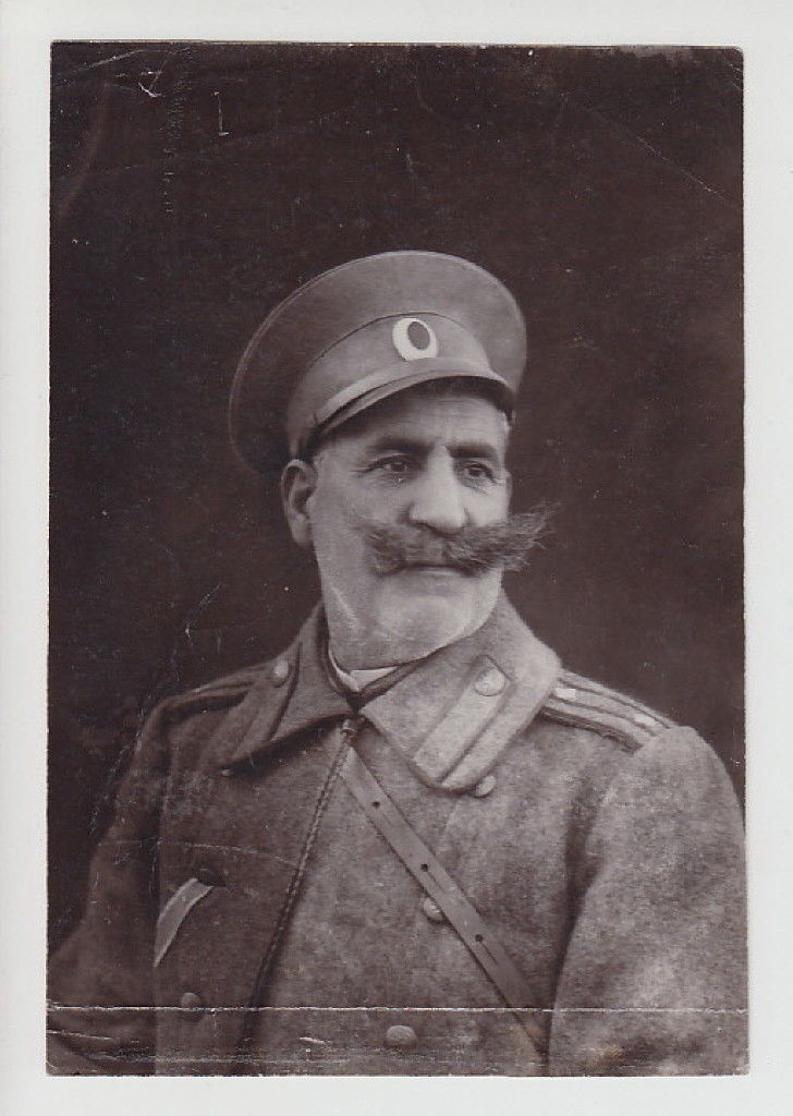 Tenyu Boydev